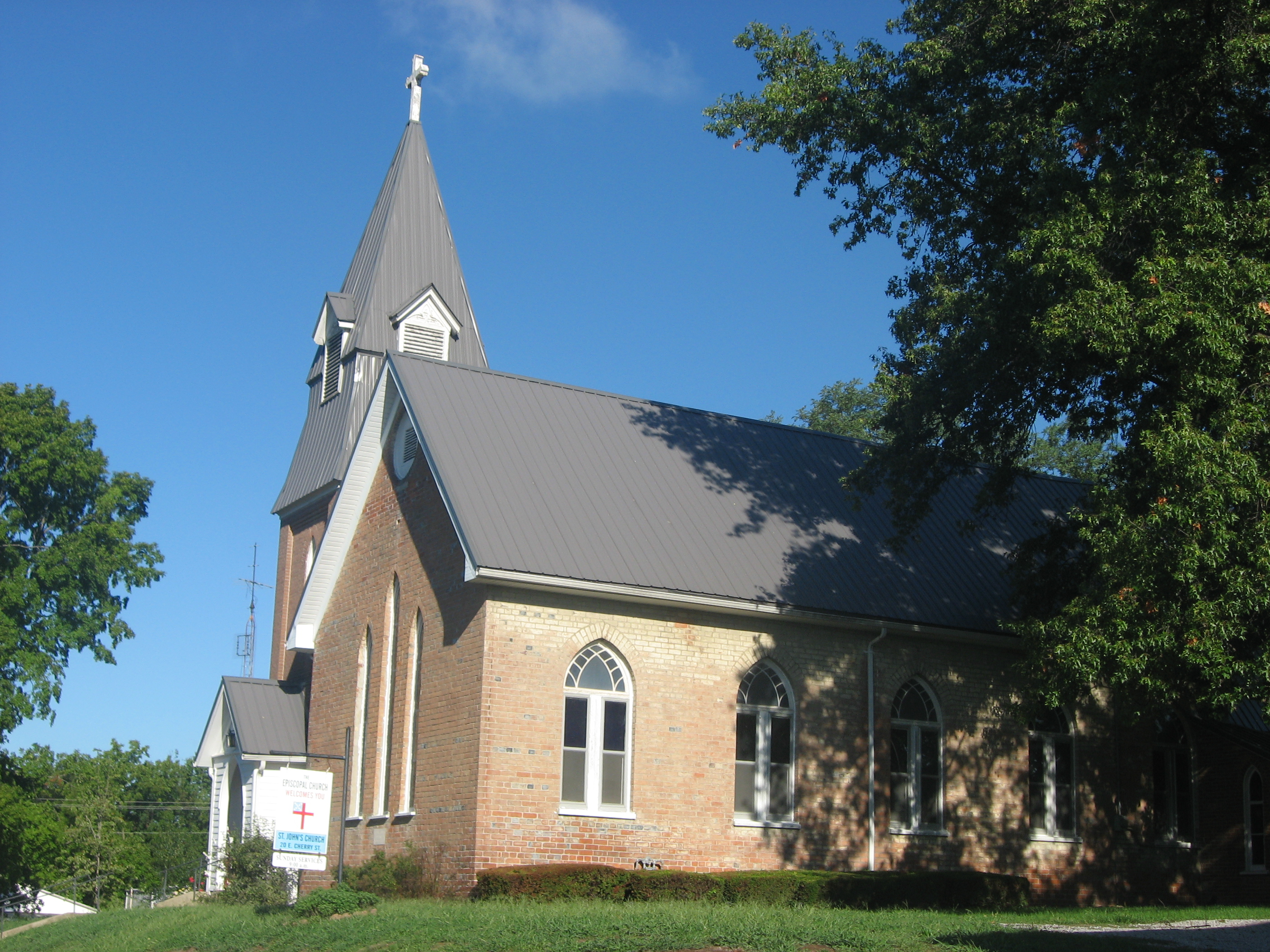 Eastern side and front of St. John's Episcopal Church, located at 20 E. Cherry Street in Albion, Illinois, United States. Built in 1842 and since expanded, it is listed on the National Register of Historic Places.